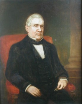 Portrait of General Robert Armstrong by George Dury, Tennessee State Museum